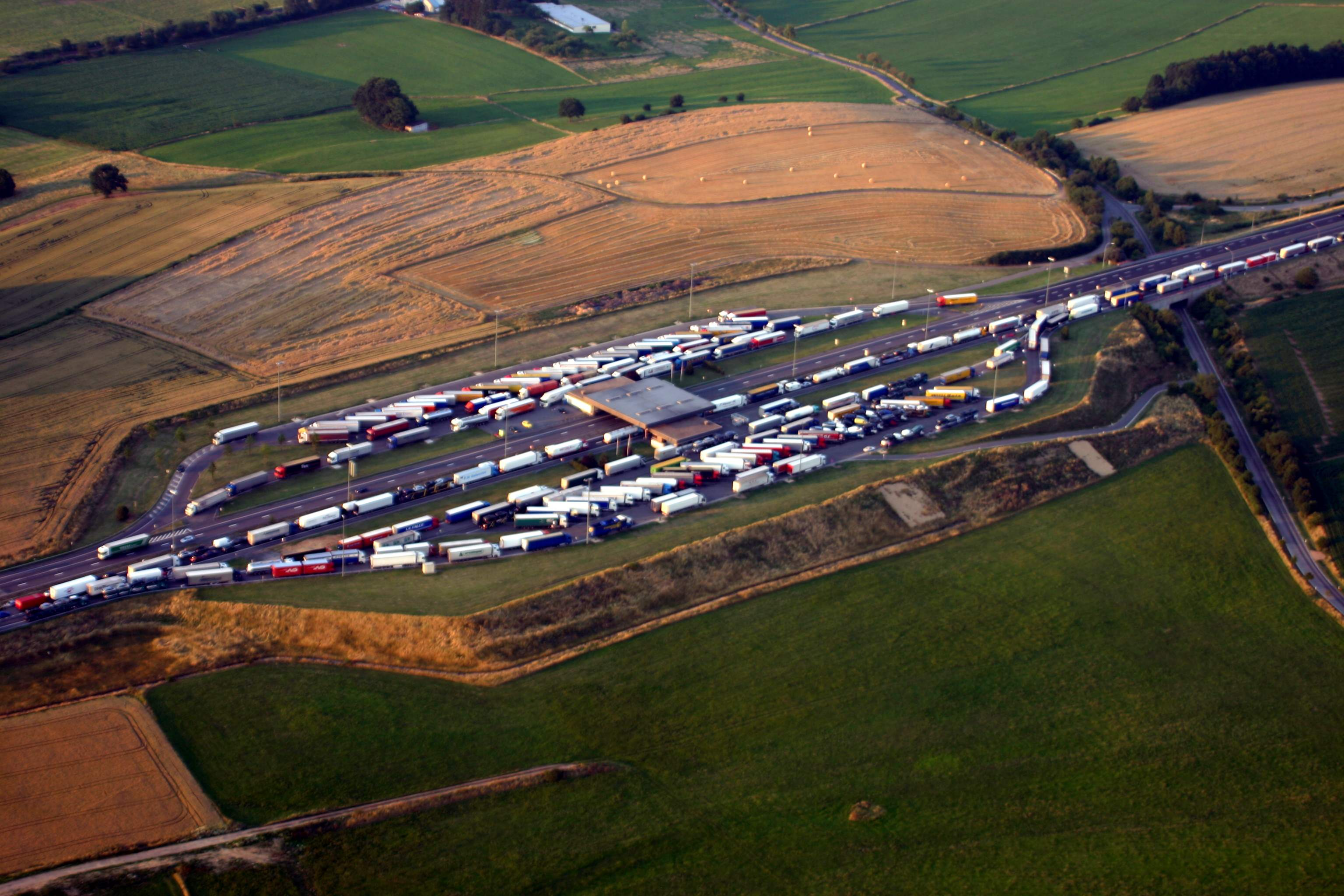 The Customs on the E25 at the Belgium-Luxembourg border (Sterpenich/Kleinbettingen)